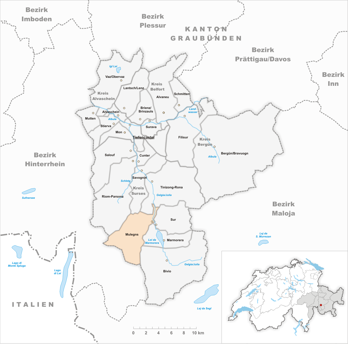 Municipality Mulegns